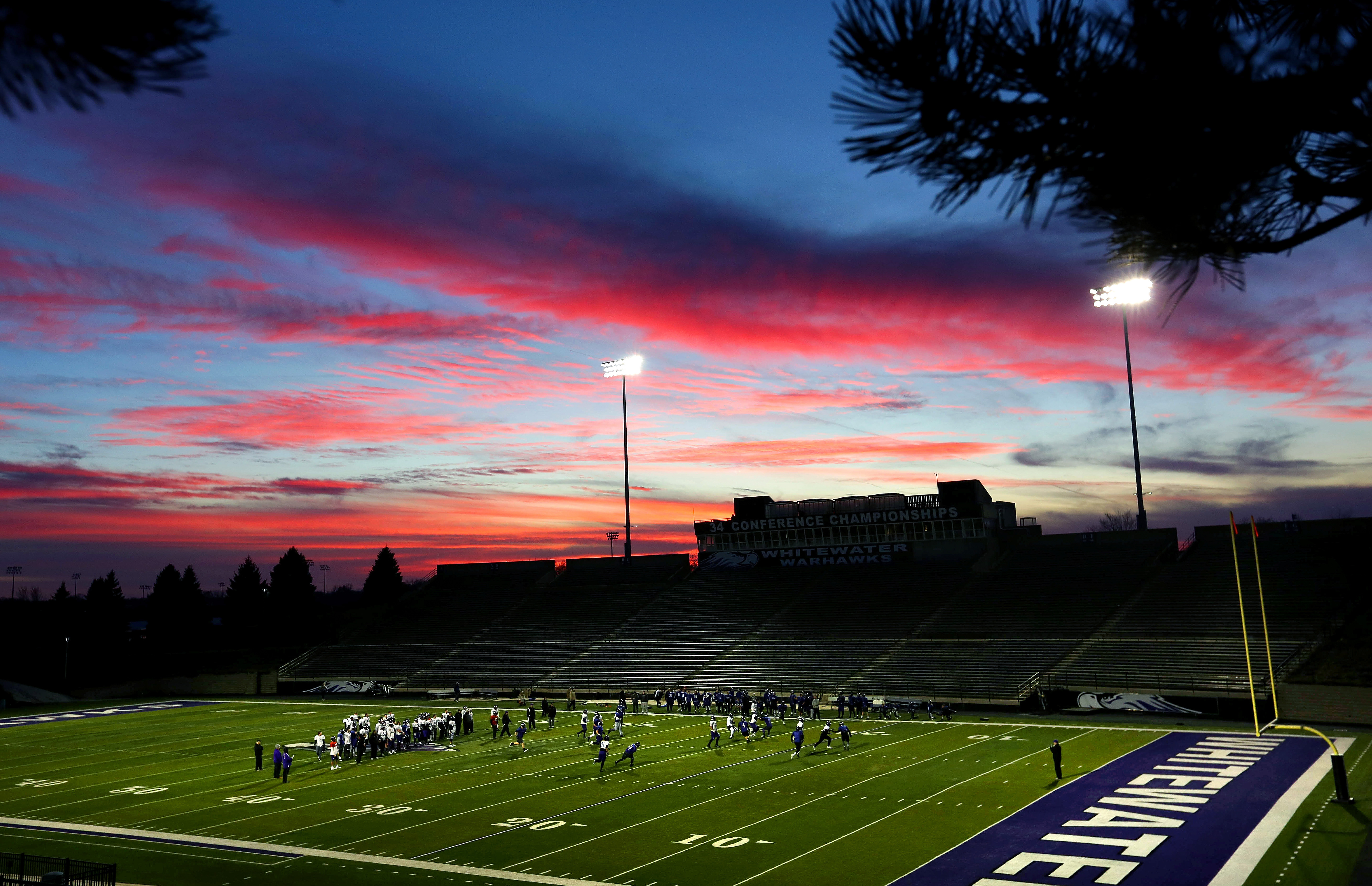 Perkins Stadium at University of Wisconsin-Whitewater, home to the Warhawks (UW-Whitewater photo/Craig Schreiner)